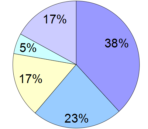 Languages spoken at home in the Brussels Capital Region (2013) French Dutch & French Dutch Neither French nor Dutch French w/ another non-Dutch language